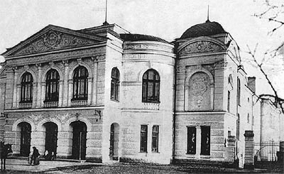 Vinnitsa Theatre buiding, beginning of XX-th cent.